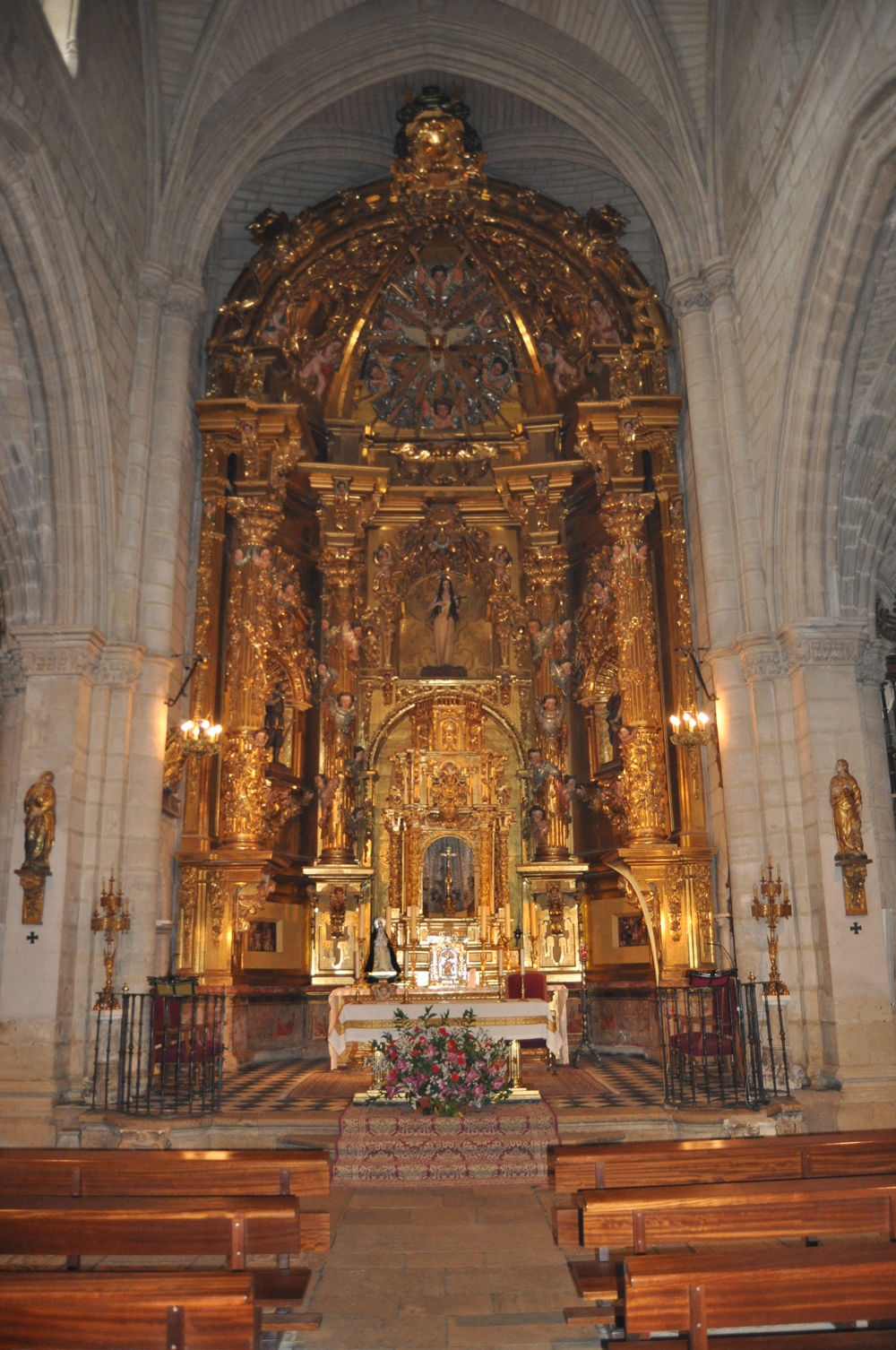 Retablo iglesia Santa María Magdalena - Narciso Tomé - Villa de Torrelaguna (Madrid)